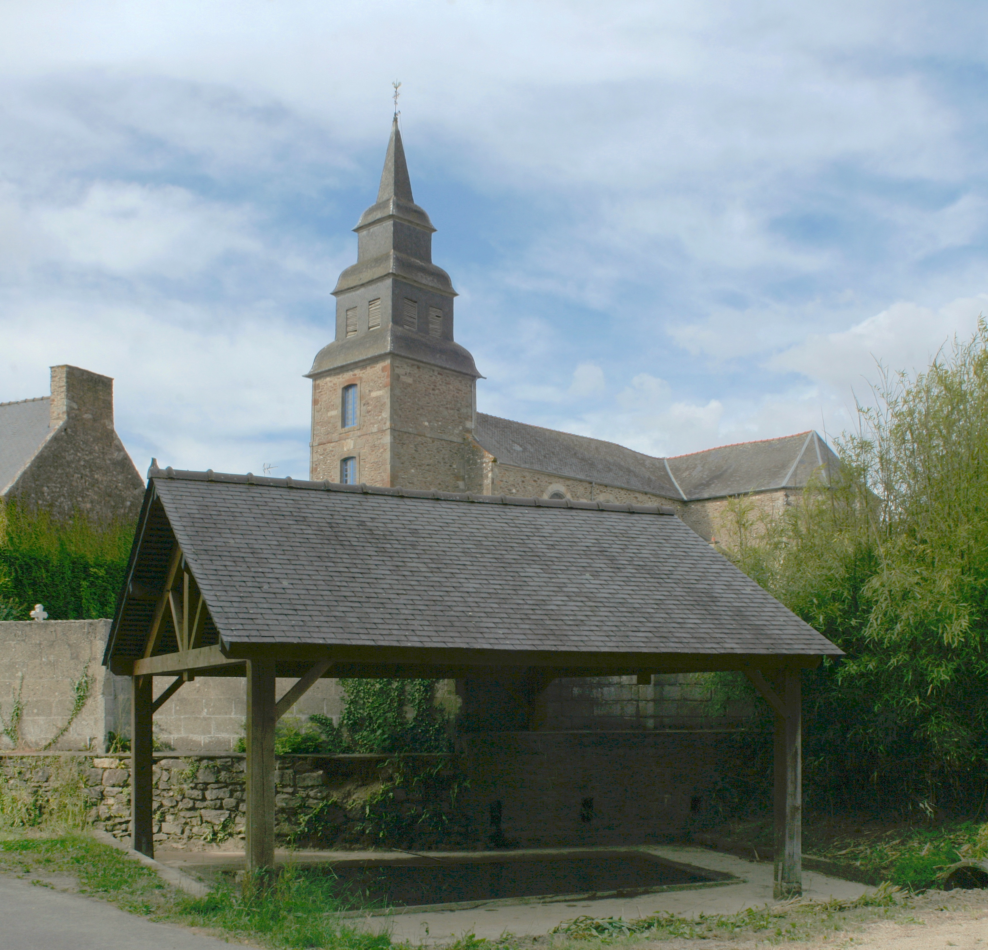 St-Peter church of Pleslin-Trigavou, and wash house in foreground.